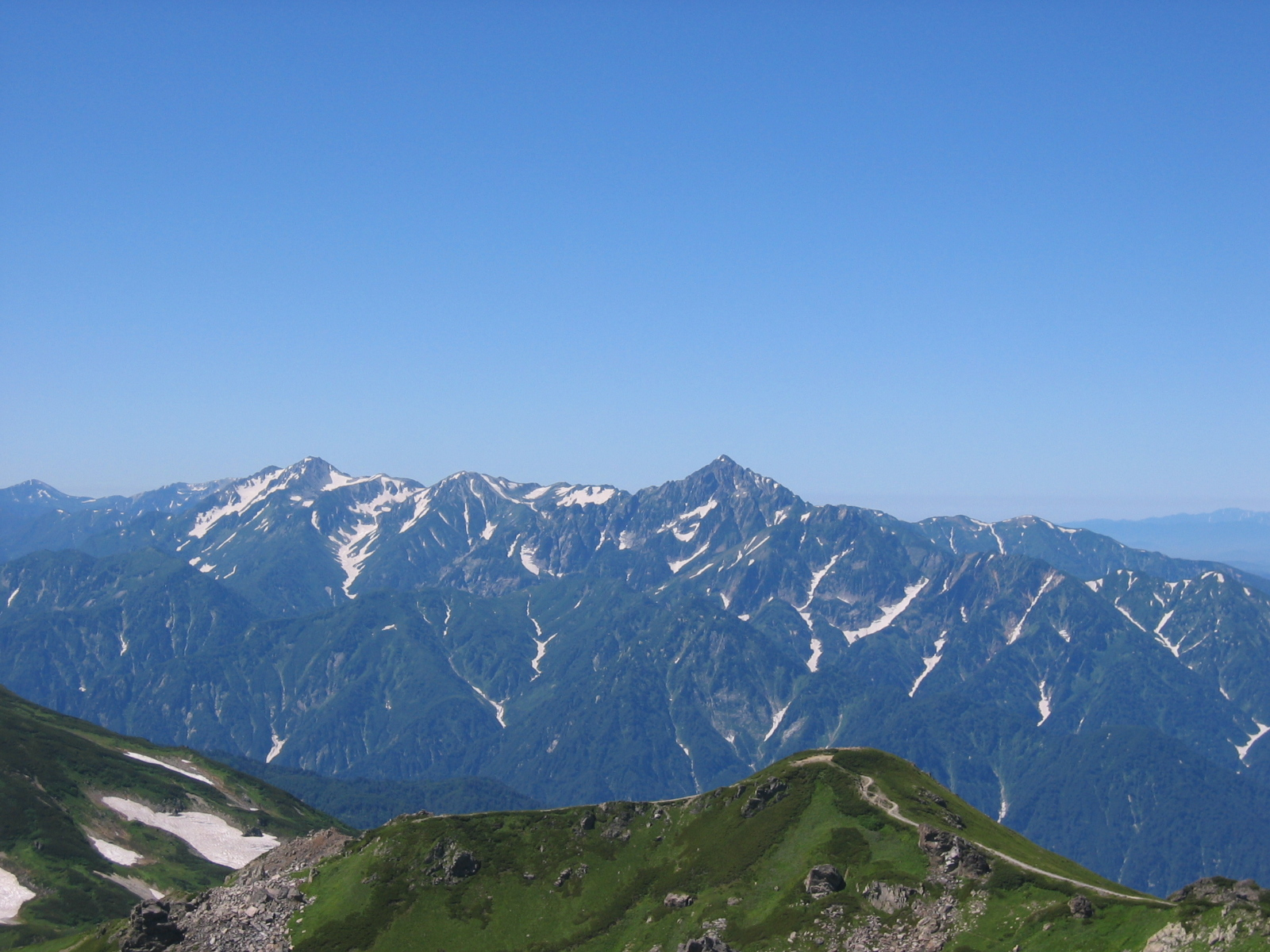 Tateyama Mountains seen from the Northeast. Shot at Mount Shirouma. Mount Tsurugi on the center right.